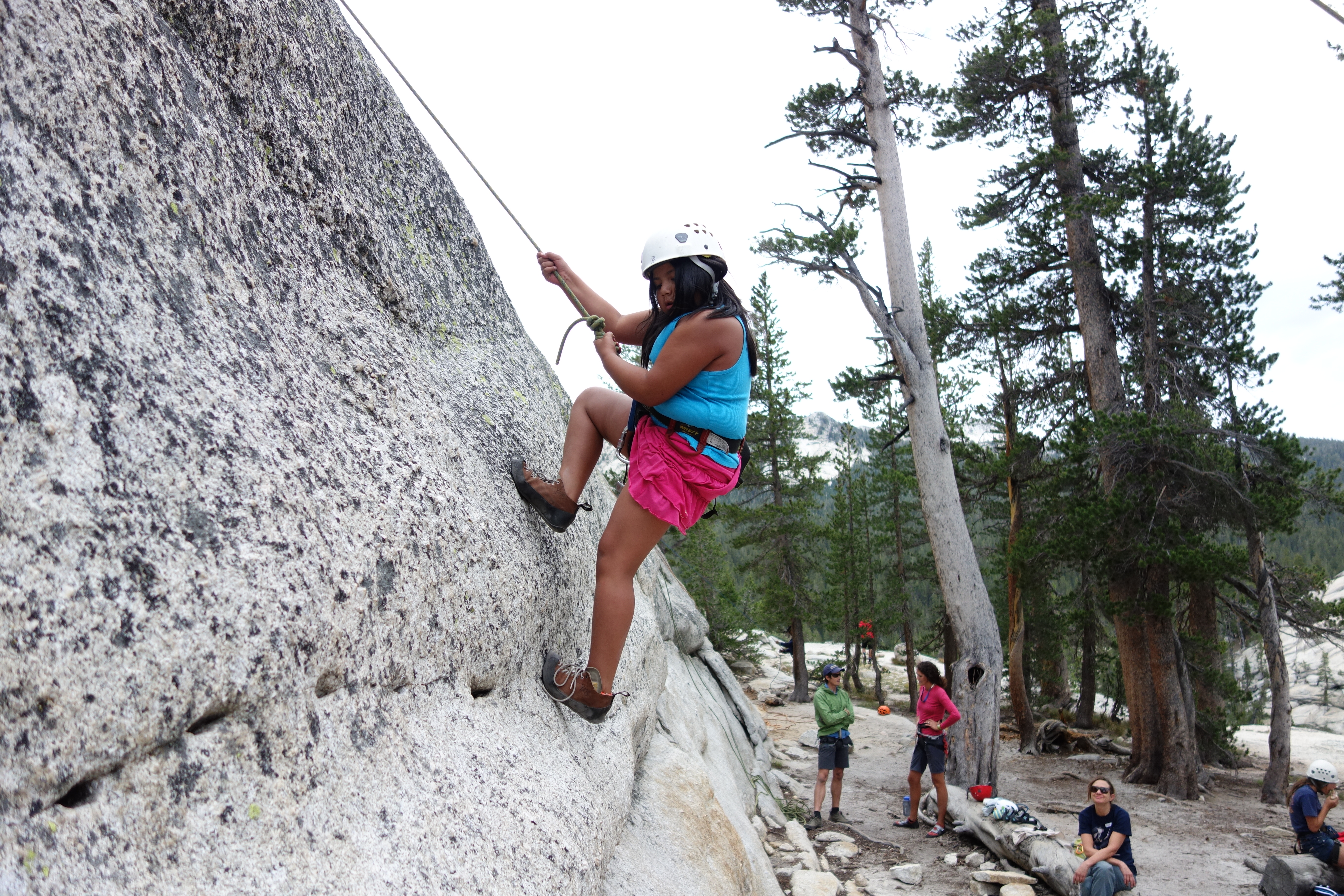 Bishop Paiute Tribal youth willed their way up the rock at Puppy Dome in Toulumne Meadows, Yosemite National Park. Firstbloom campers were treated to an afternoon of rock climbing with the Yosemite Mountaineering School and Guide Service. Photo by USFWS.